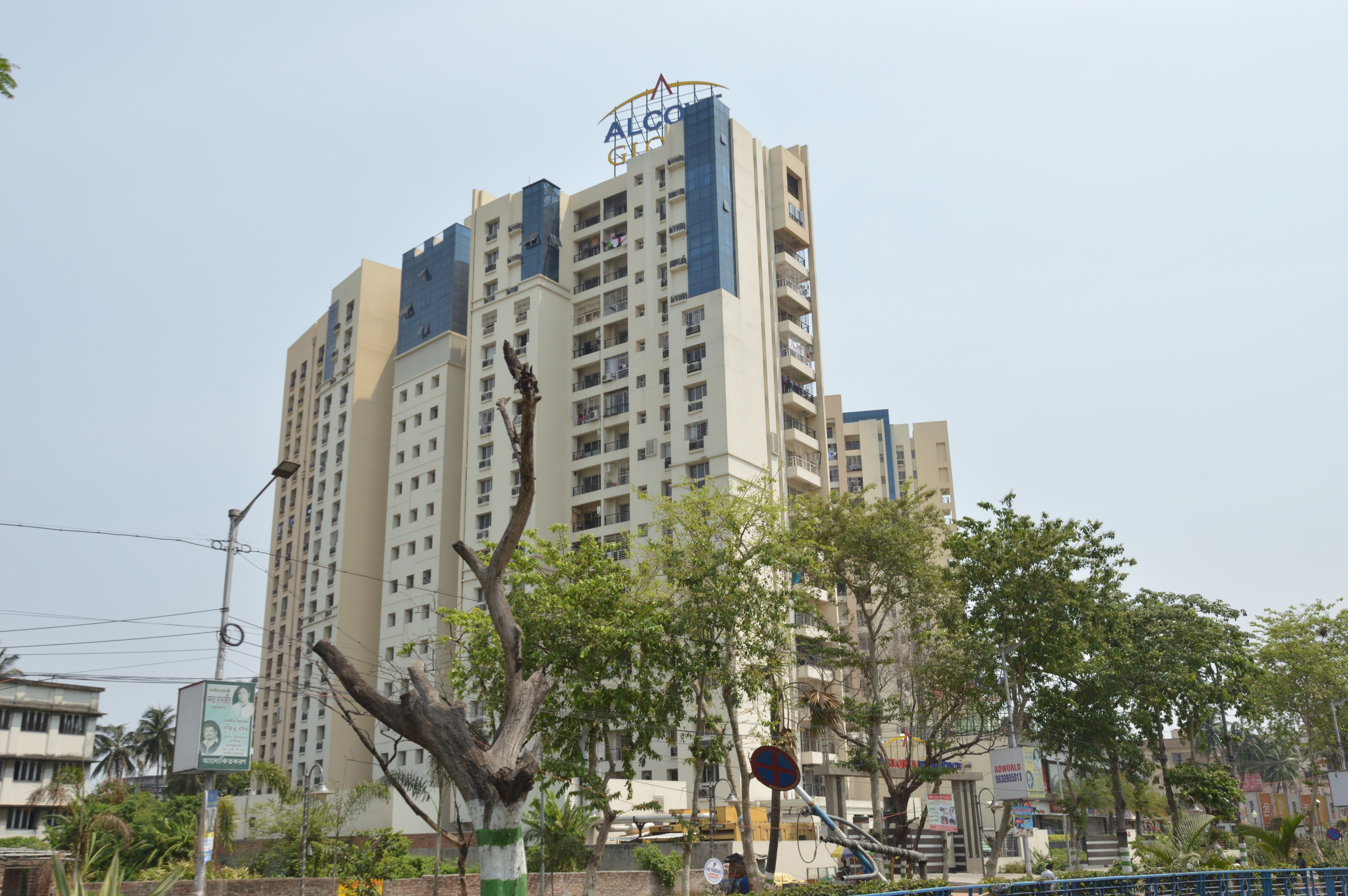 Photographed in Kolkata, West Bengal, India.